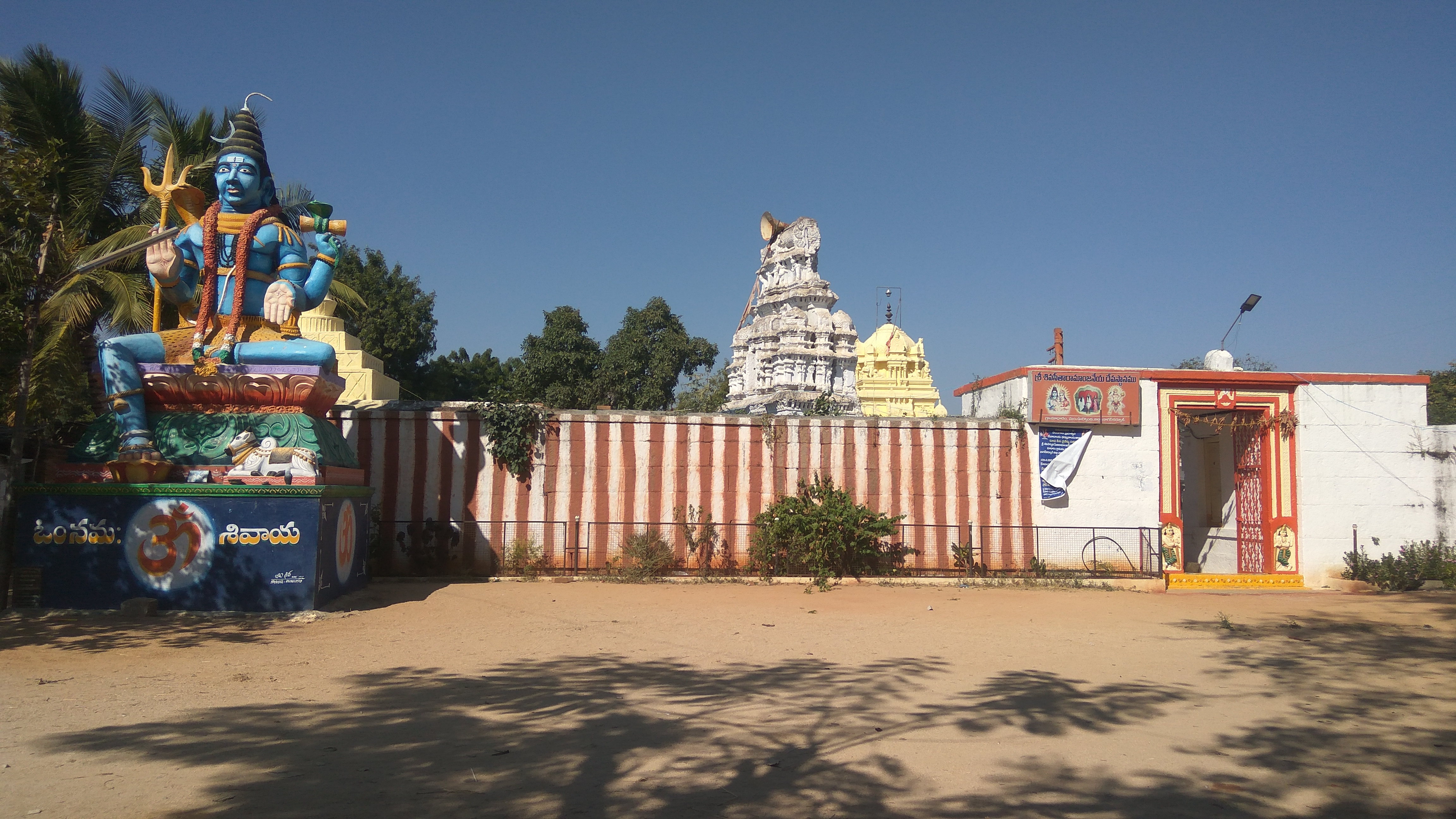 Lord ShivaSeethaRamAnjaneya Temple in Madharam Village, Urkonda Mandal, Nagar Karnool District in Telangana State